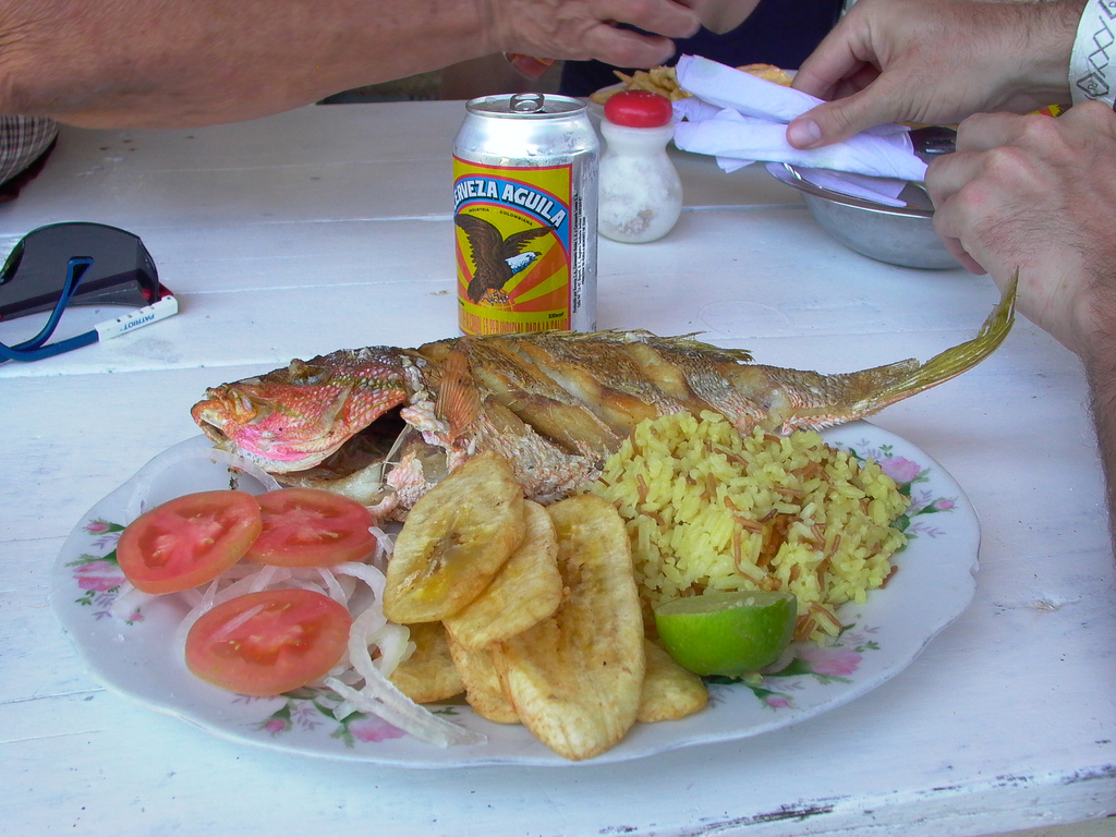 Red snapper, bananas, rice, lime, onions, tomato. that's about it and I don't need anything else. Except for some Aguila?